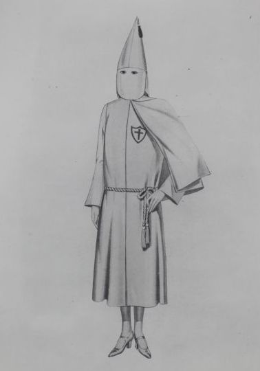 Klanswomen uniform from Women of the Ku Klux Klan. From a catalogue of official robes and banners distributed in Saskatchewan in the 1920s and 1930s.